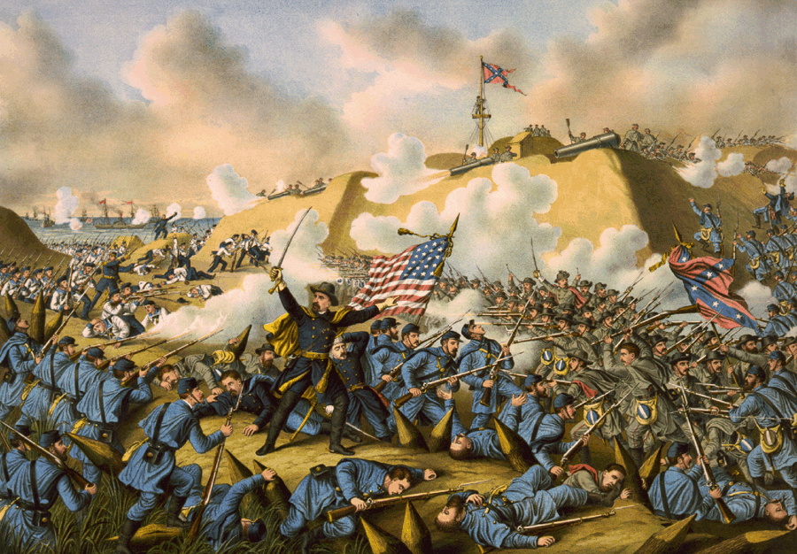 Capture of Fort Fisher (Second Battle of Fort Fisher).- Troops led by Union Army Major General Alfred H. Terry fighting Confederates on January 15, 1865.